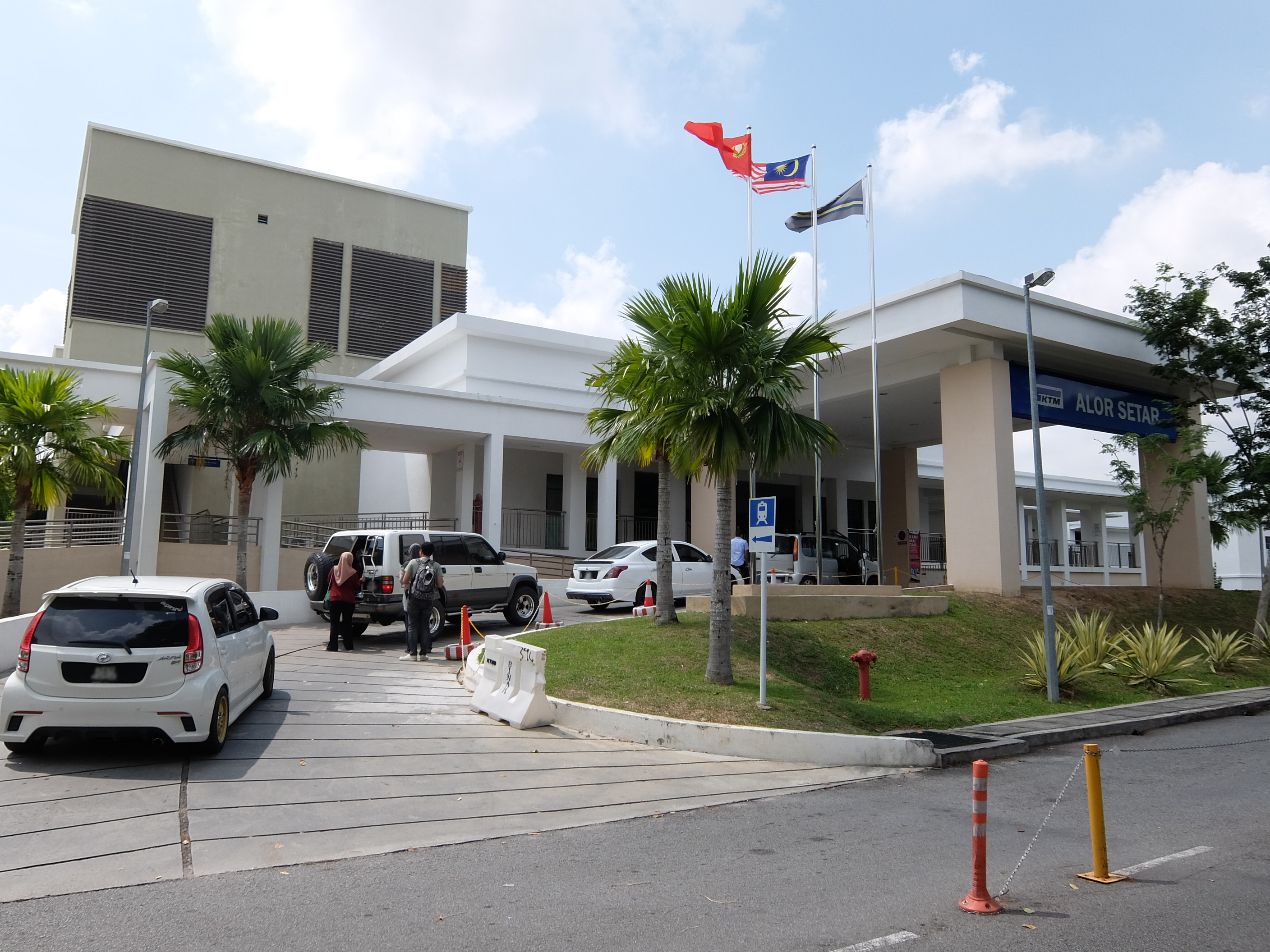 Alor Setar Railway Station, Alor Setar, Kota Setar, Kedah, Malaysia